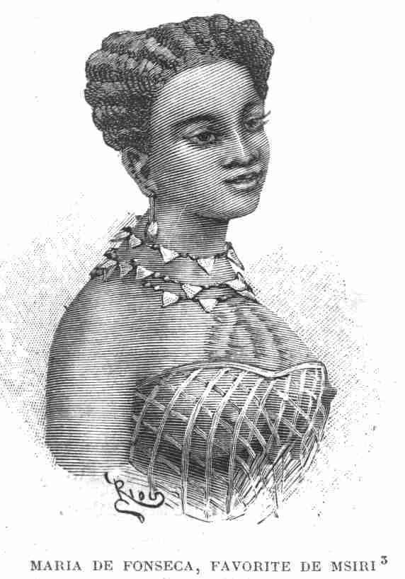 Maria de Fonseca, daughter of a Portuguese-Angolan trader, said to be the favourite wife of Msiri, King of Katanga, in 1892.